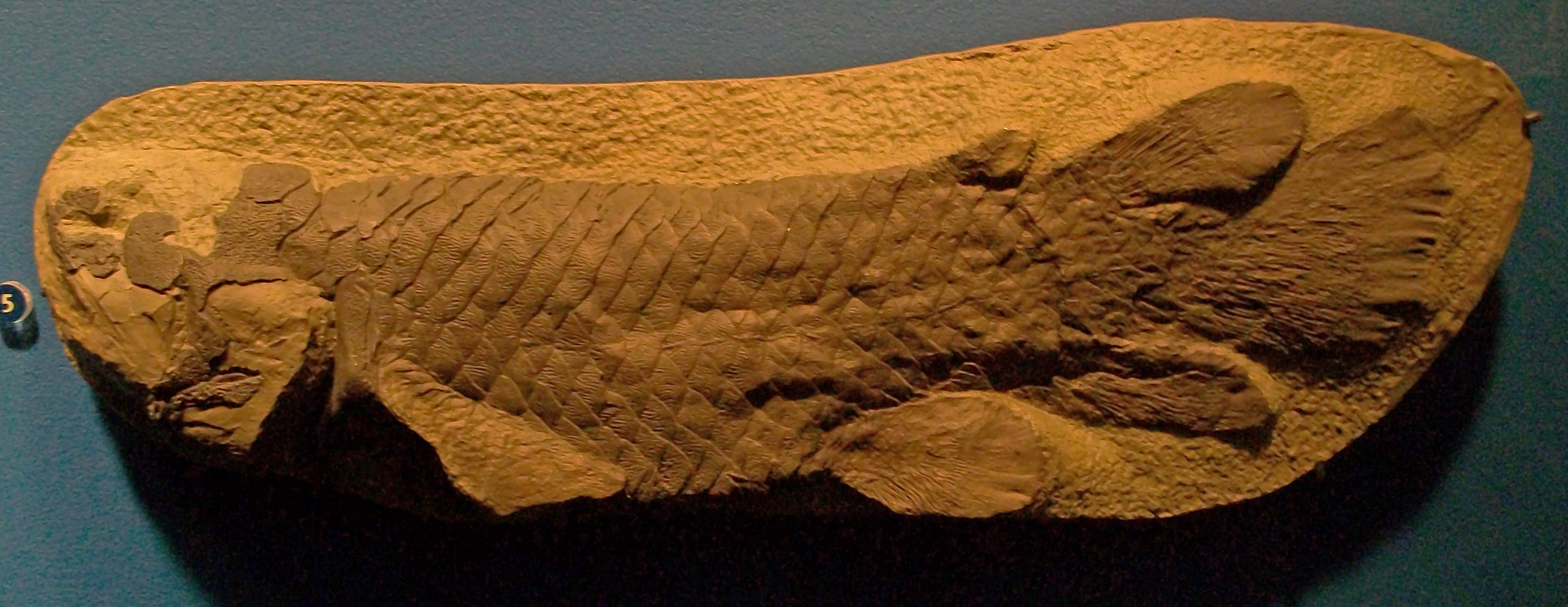 Fossil of Holoptychius quebecensis in the Field Museum of Natural History.